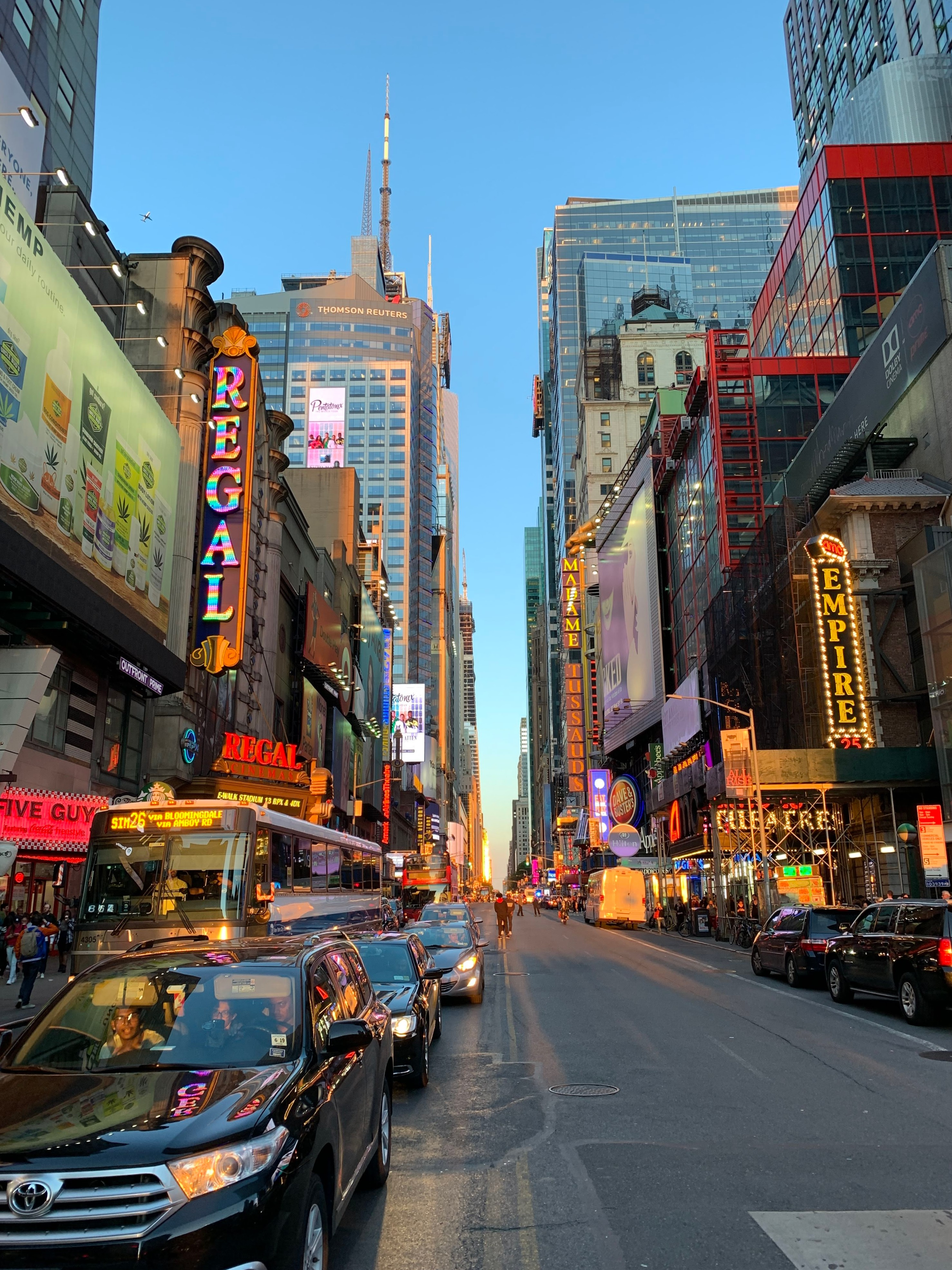 Manhattanhenge creating beautiful colors on West 42nd Street